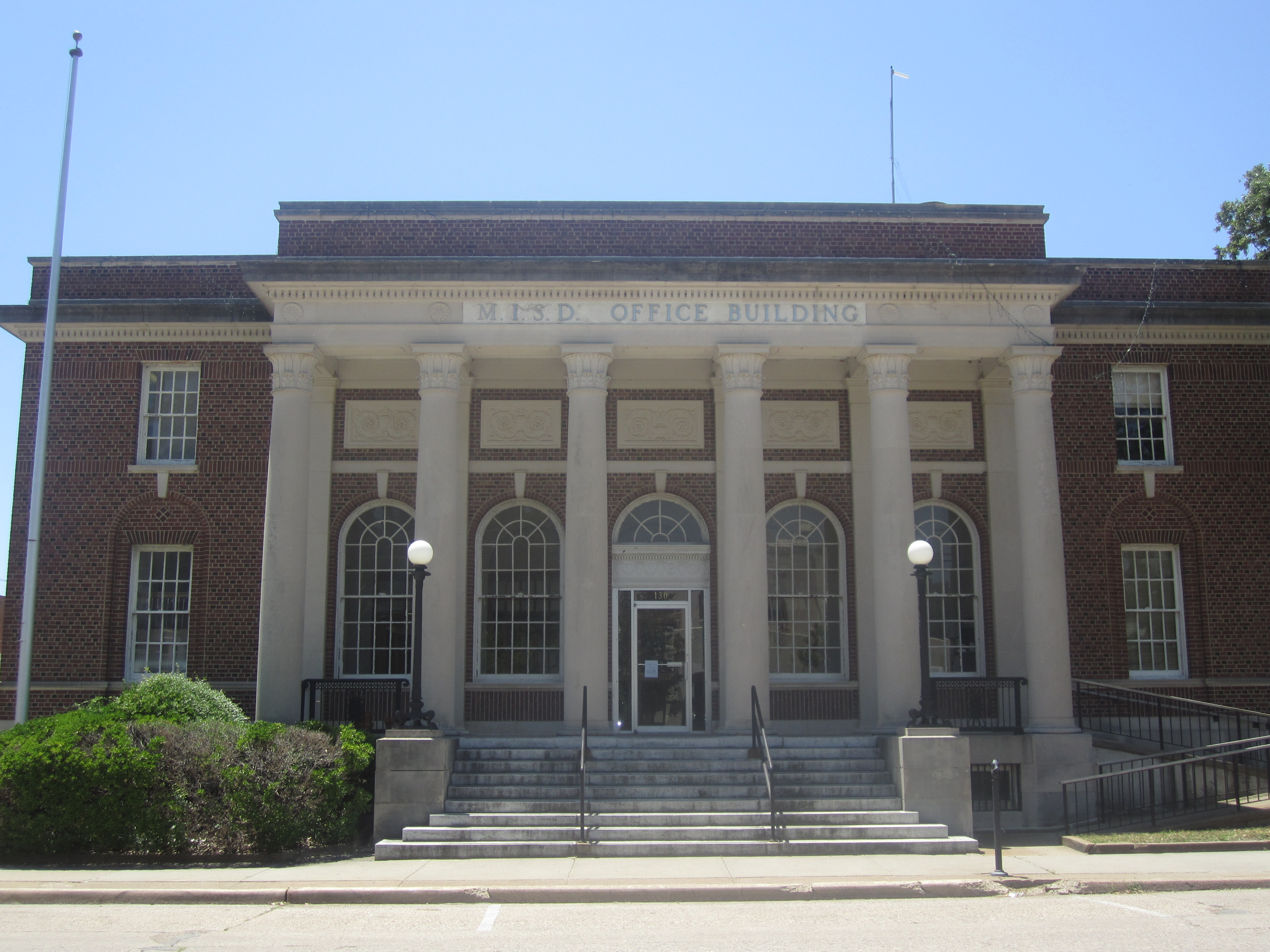 Marlin Independent School District Office Building, Marlin, Texas. The building is located at 130 Coleman St., between Ward St. and Post Office St.